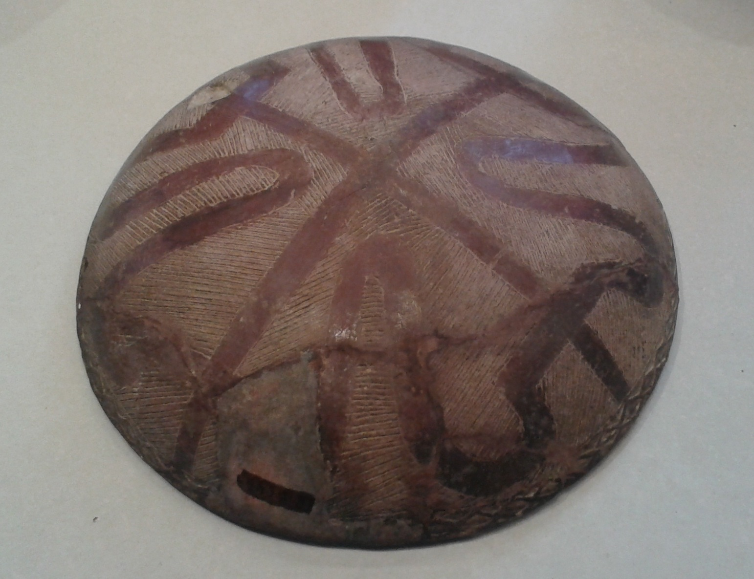 Bowl of the Nubian C-group, Musee du Louvre